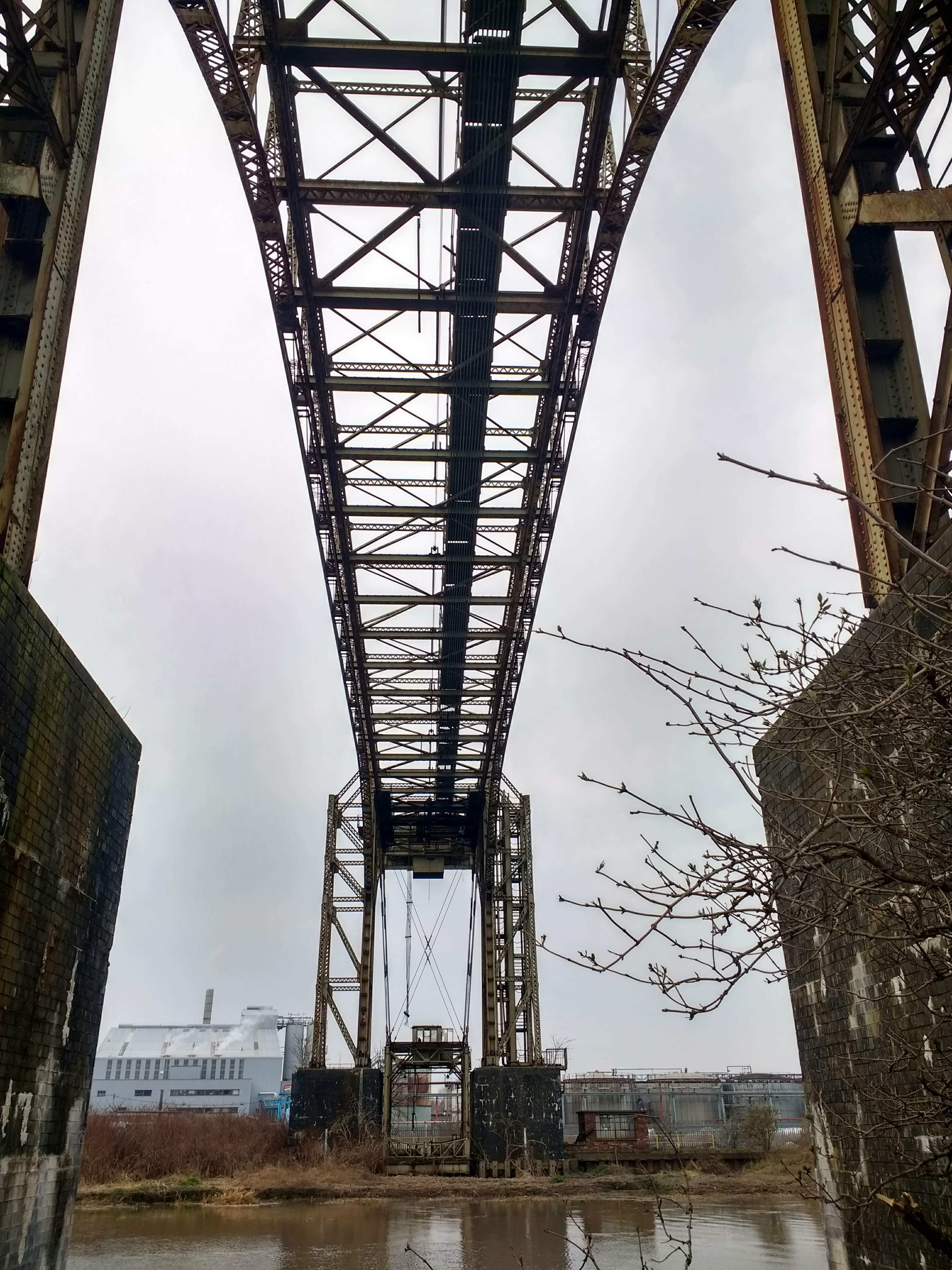 Taken from under the transporter bridge with the River Mersey and Cable car in view